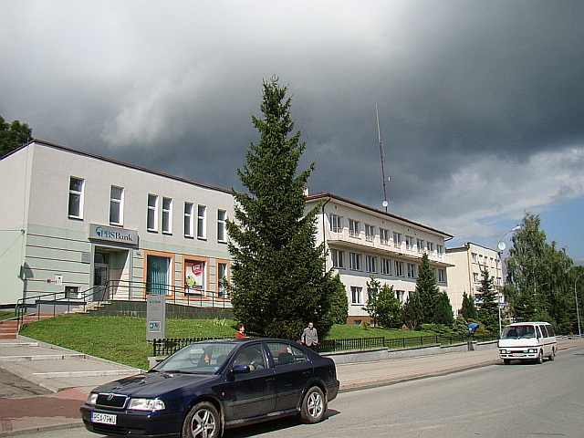 Bukowsko